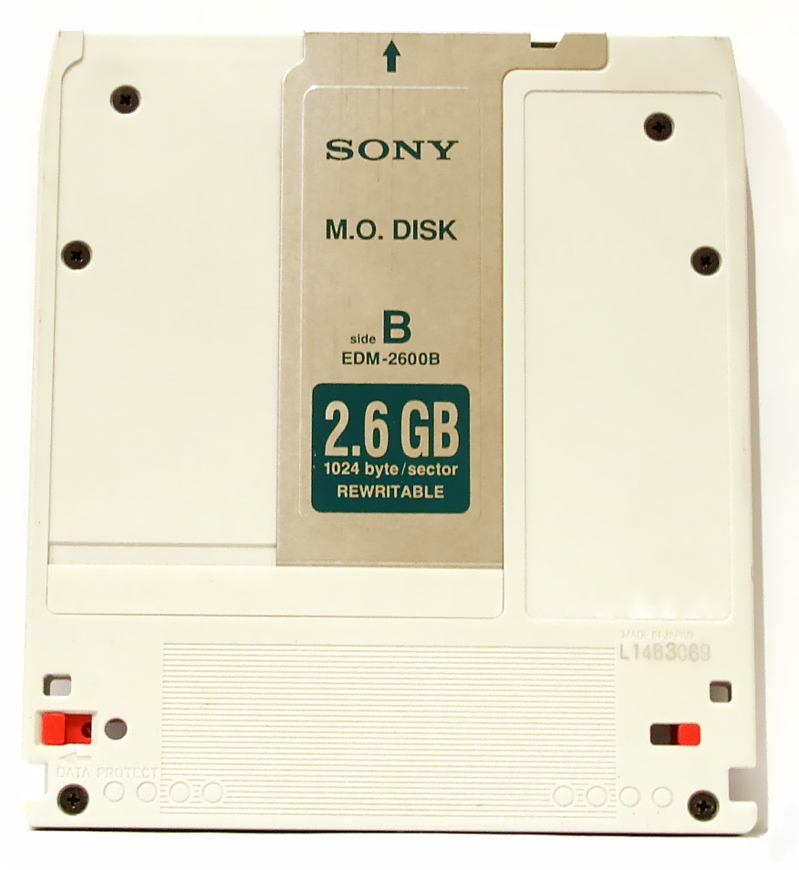 2.6 GB Mangneto-Optical Disc